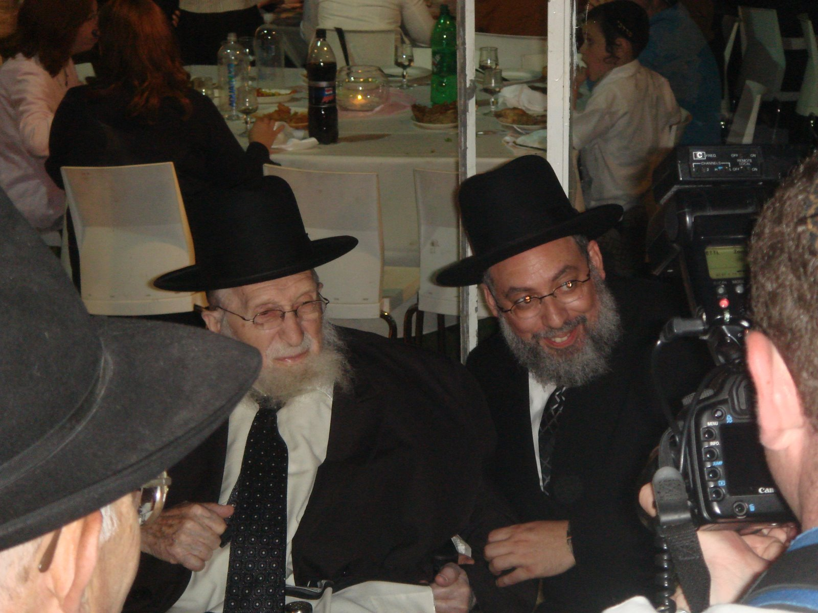 Rabbi Yaacov Haber with his teacher, Rav Chaim P. Scheinberg at the wedding of Nechama Haber and Avraham Walkin